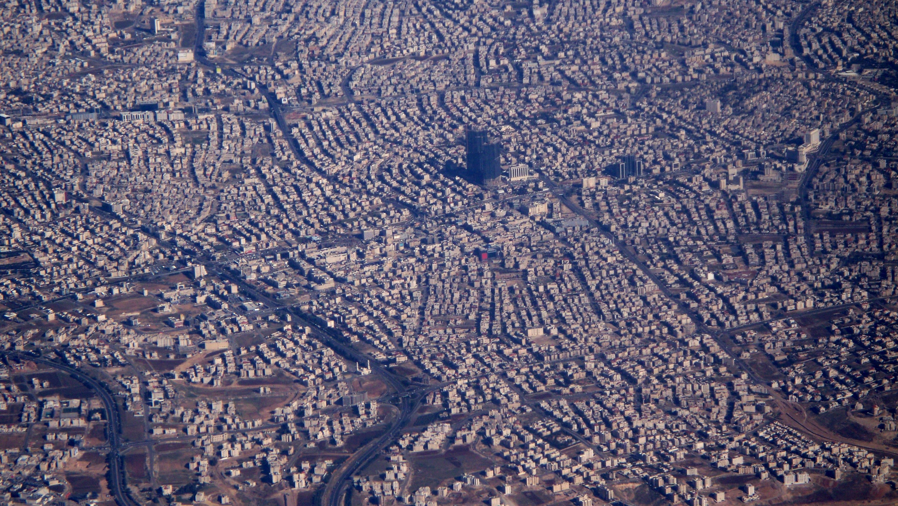 Aerial photograph of Amman.